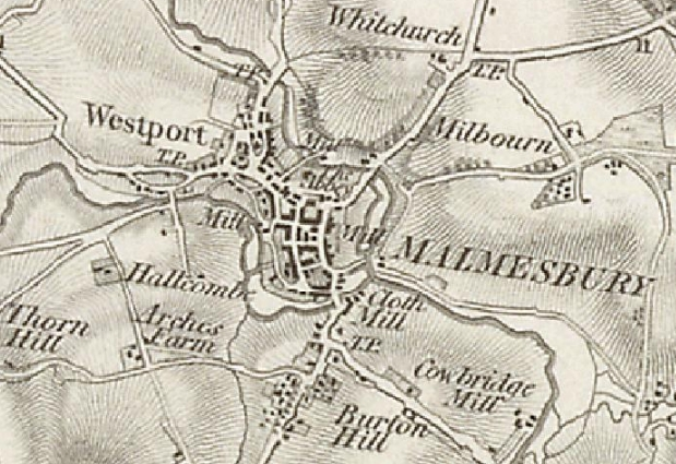 Detail of Malmesbury from old OS map